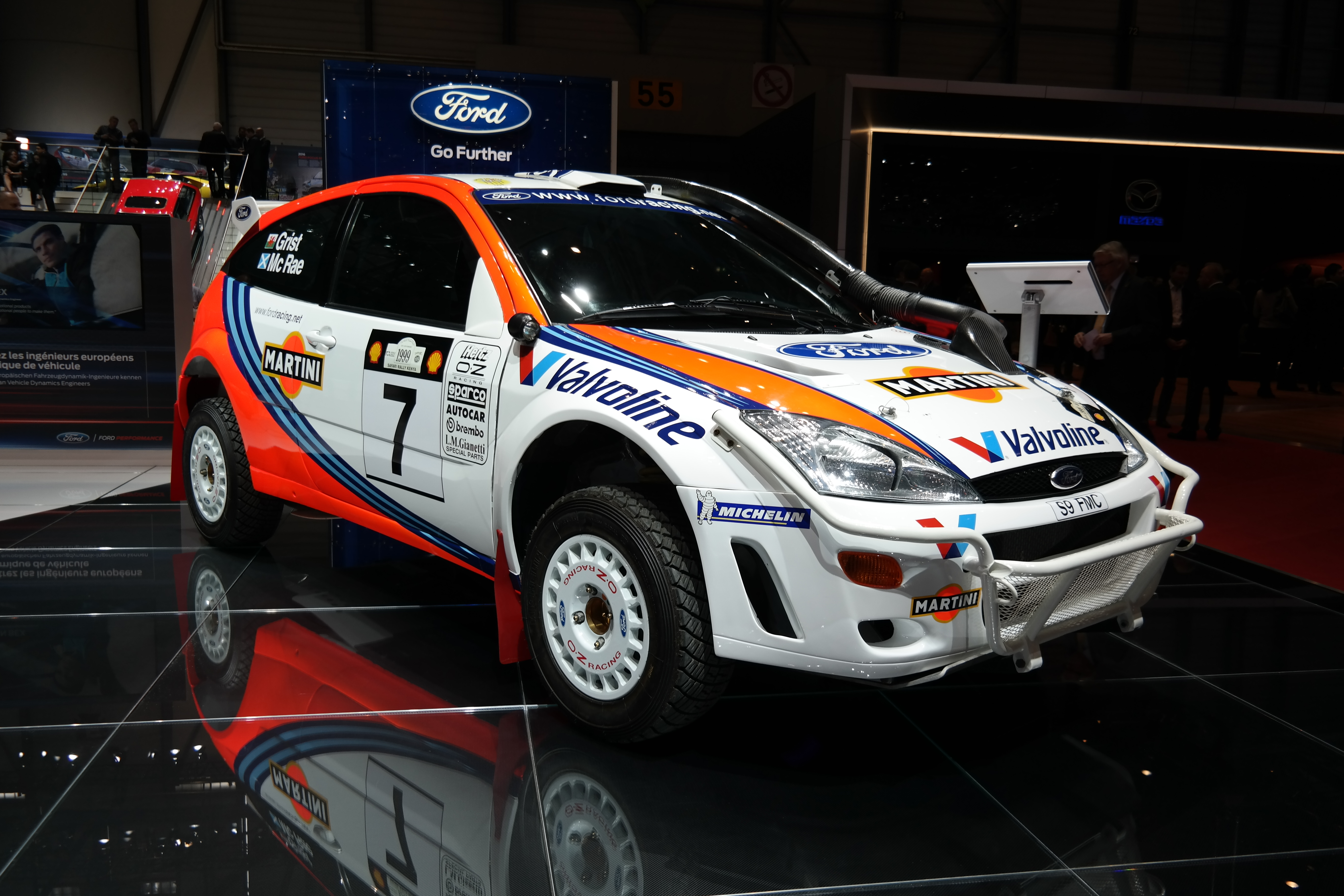 Geneva Motor Show 2017 (photo taken on the first press day)